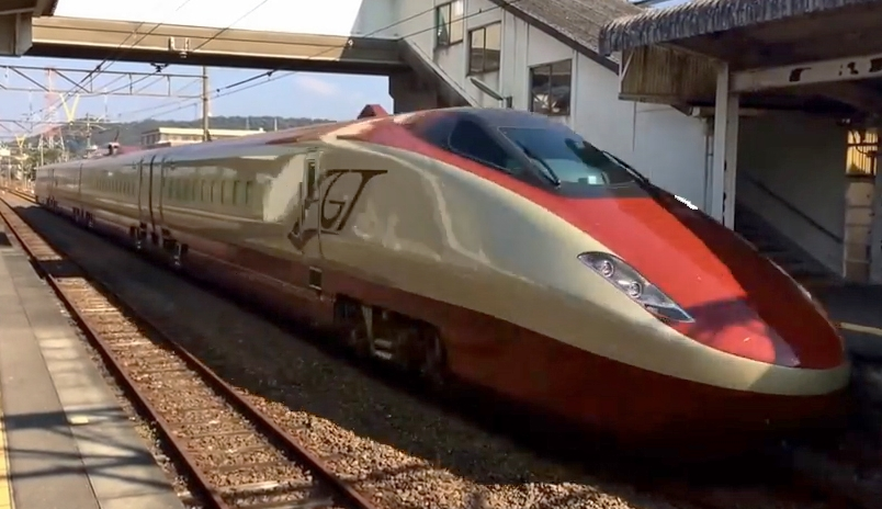 The third-generation "Free Gauge Train" EMU set FGT-9000 passing Matsubase Station on the Kagoshima Main Line while undergoing testing